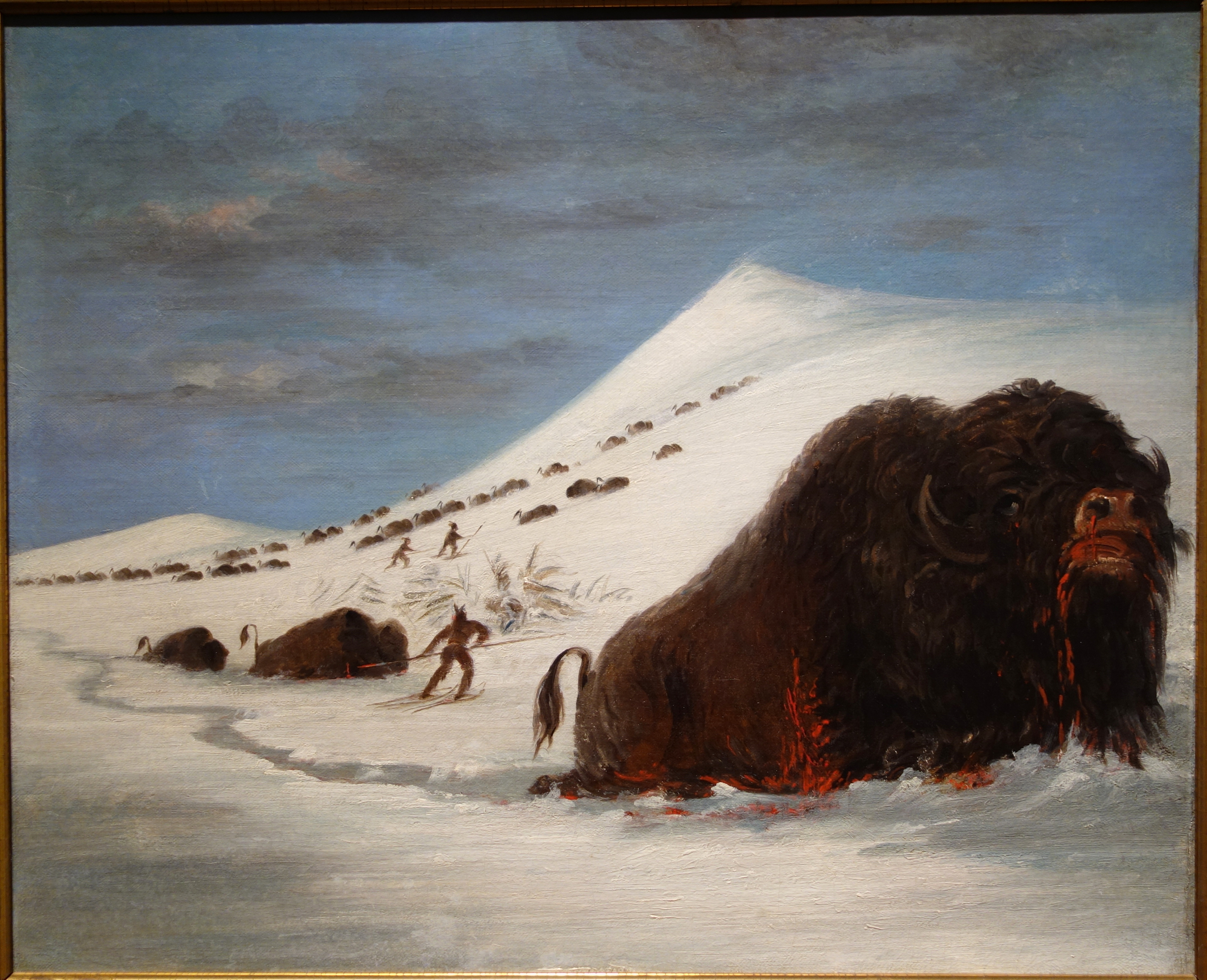 Exhibit in the New Britain Museum of American Art, New Britain, Connecticut, USA. This artwork is in the public domain because the artist died more than 70 years ago. The museum permitted photographs of this exhibit without restriction.